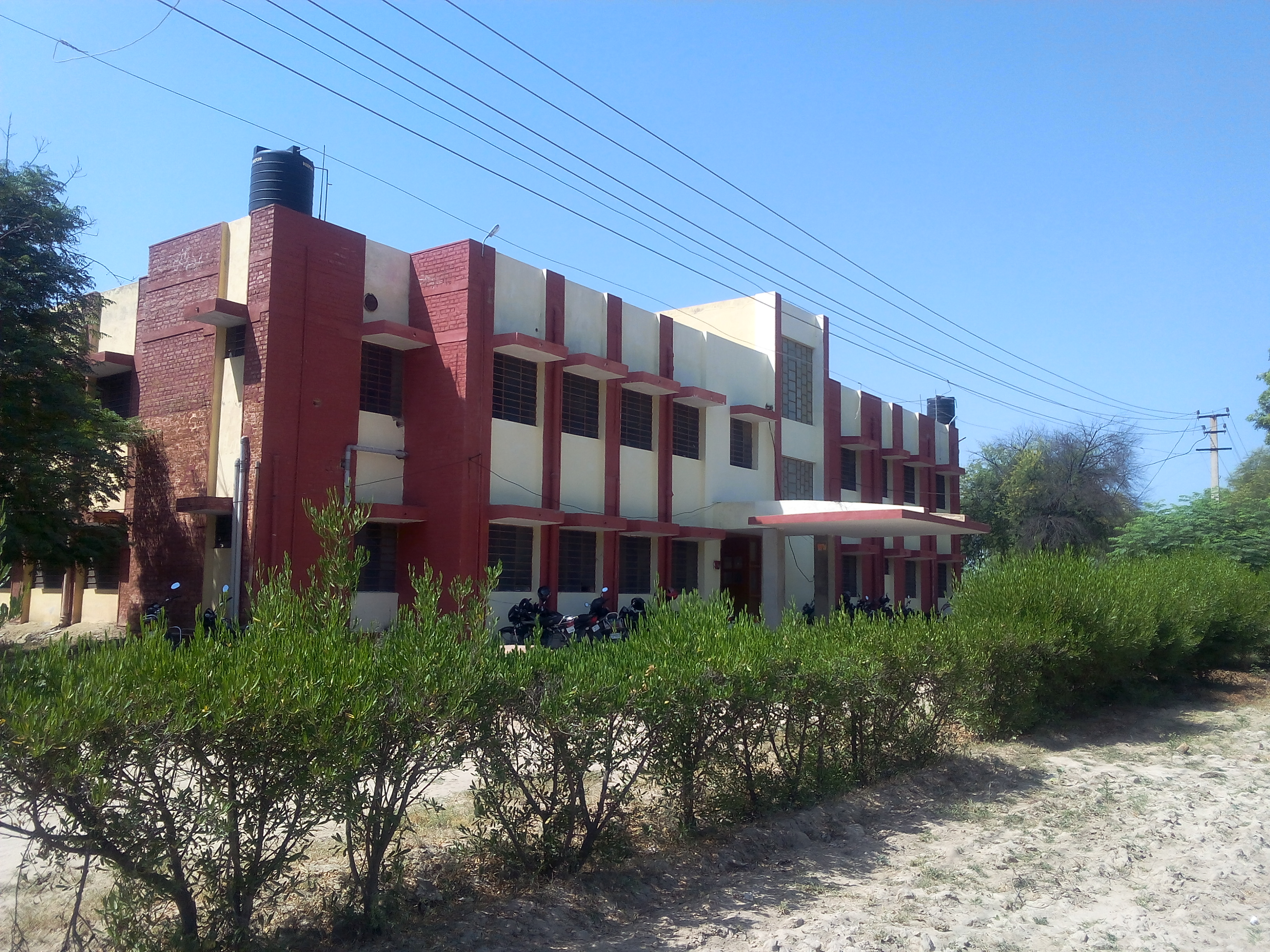 In this photo you can see the building of Diet of Shri Ganganagar district, Rajasthan, India. I,wikiuser Sivender Singh have taken this photo with my camera for wikipedia.Shemaroo (talk) 14:30, 12